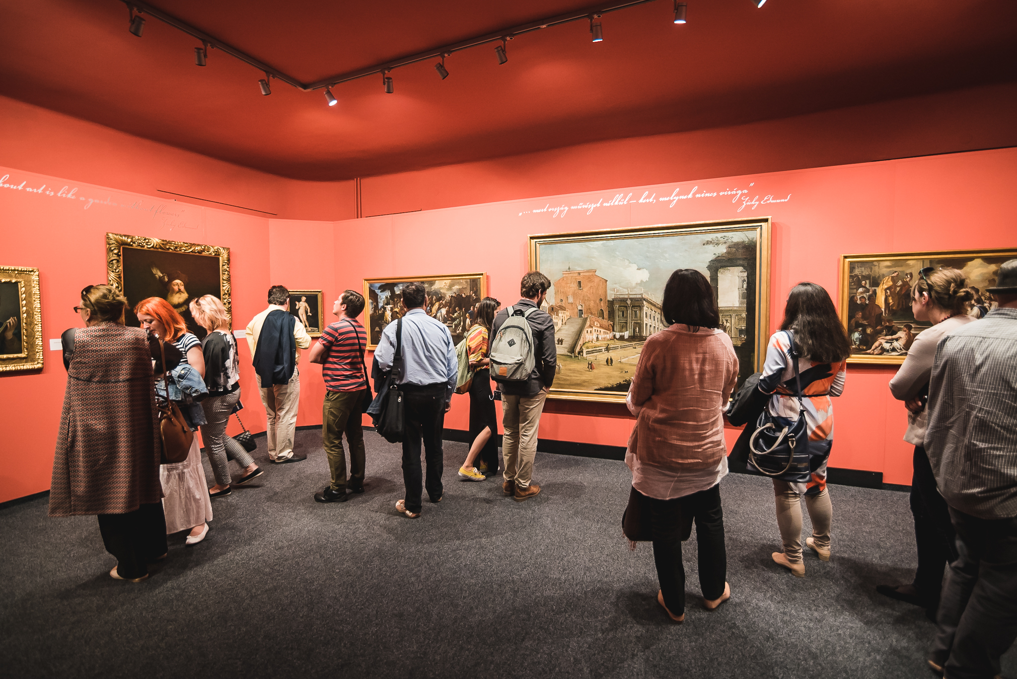 Exhibition at the Palace Of Culture